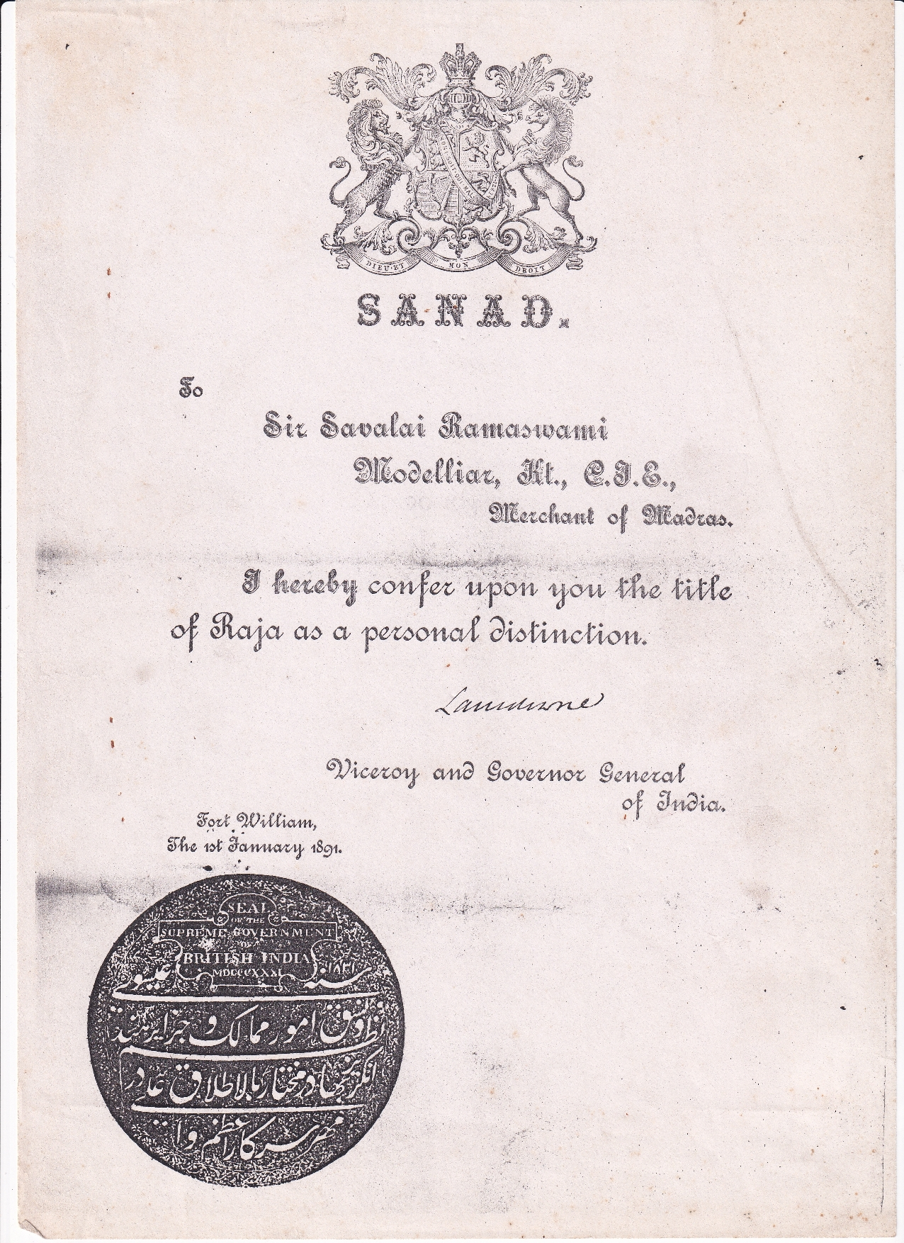 The title of Raja conferred on Sir Savalai Ramaswami Mudaliar Kt.C.I.E as a personal distinction by the Lansdowne, Viceroy and Governor General Of India in Fort William on the 1st January 1891